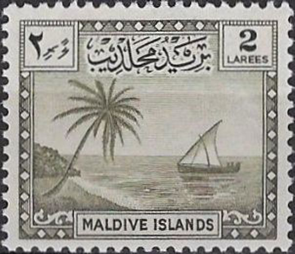 Maldives 1950 02